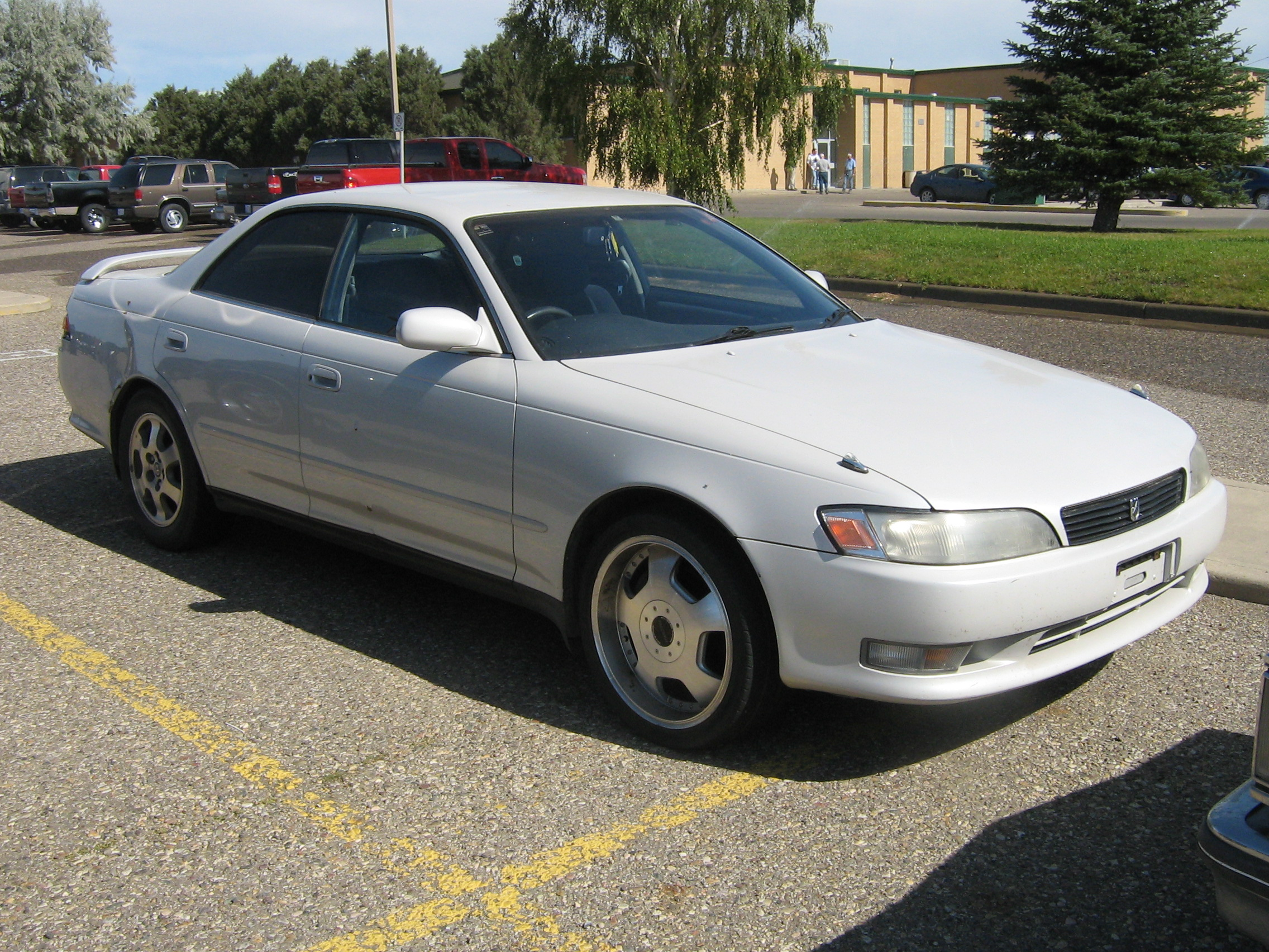 Rare to see a Toyota Mark II imported. Deep dish rims on the front but not rear ...